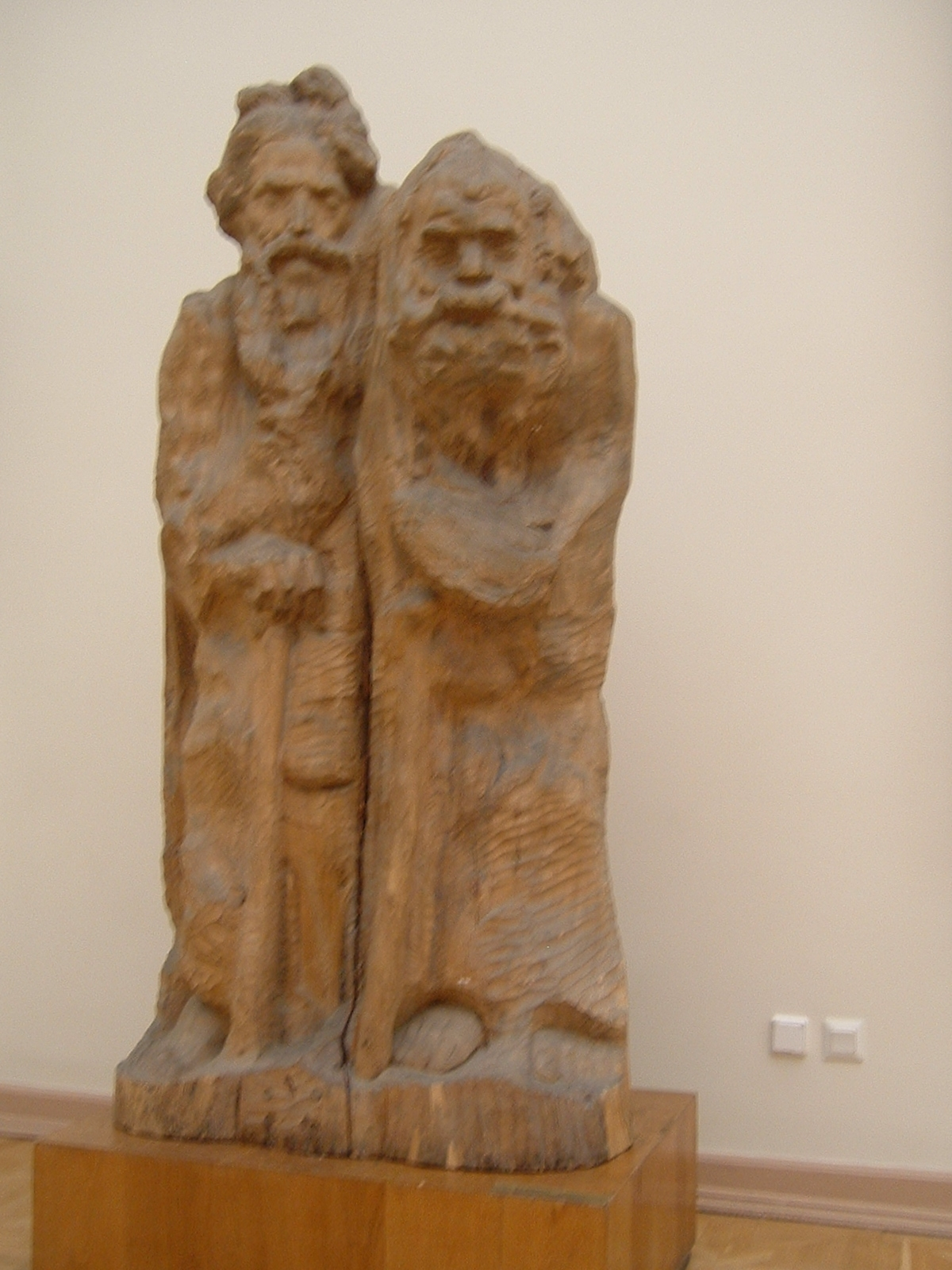 Sergey Konenkov The Poor (Нищая Братия), 1917 Russian Museum, Photo is mine